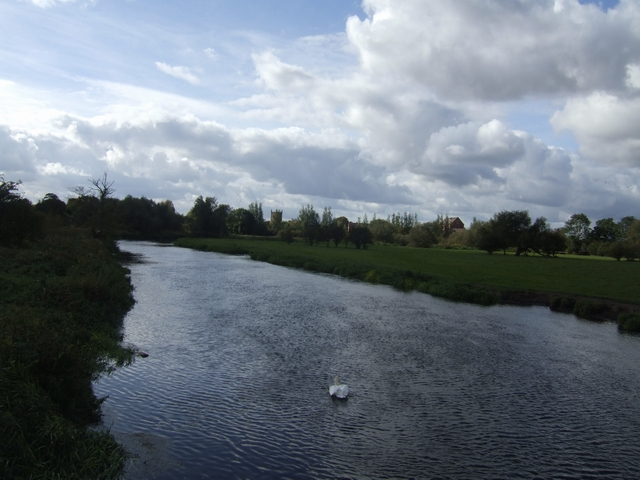 River Trent downstream of Alrewas Upstream of its junction with the Trent and Mersey Canal.